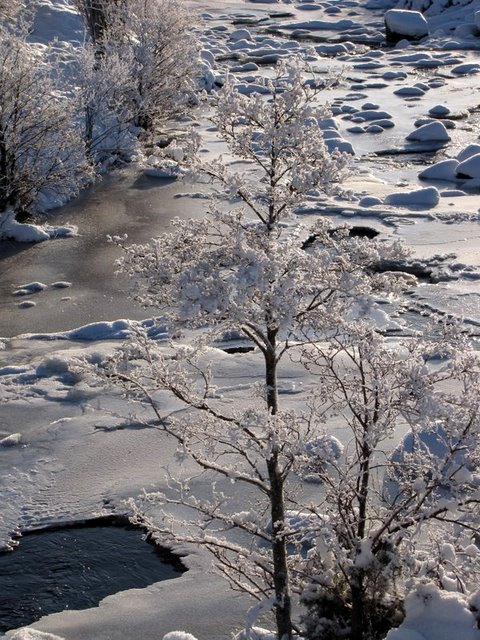 Ice on the River Shin